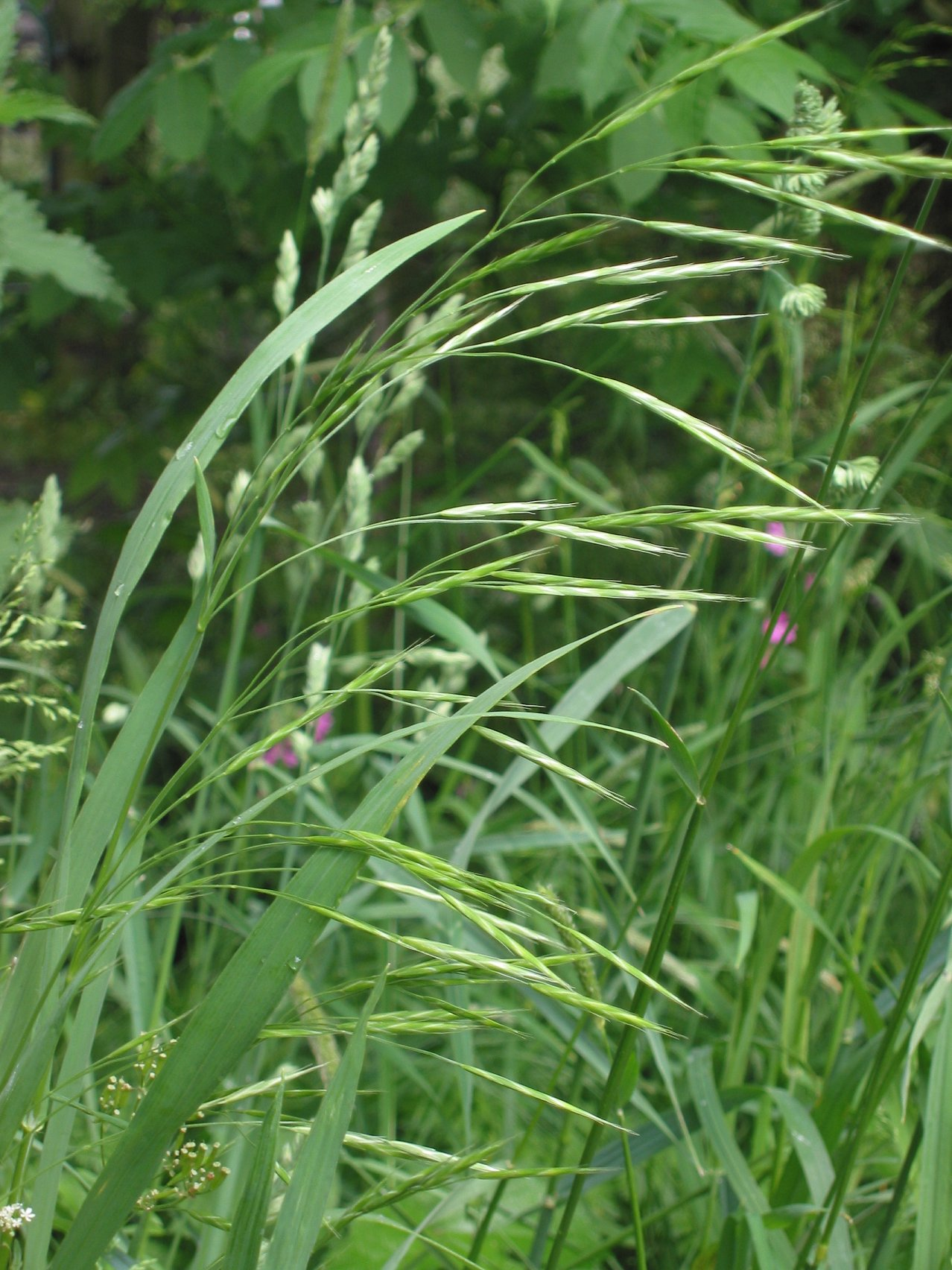 Festuca arundinacea flowering